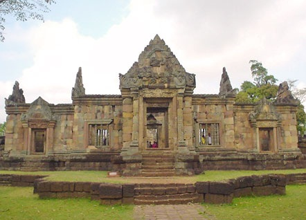 ปราสาทเมืองต่ำ